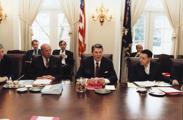 I found this picture at the Ronald Reagan Library website. The address is as follows: . All photos from the website are in the public domain, but are courtesy the Reagan Library. The photographer is not known.